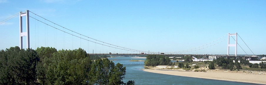 Semipalatinsk Bridge, A smaller version of Image:Semipalatinsk_Bridge.jpg. This version has been rotated, color and exposure adjusted, and cropped.